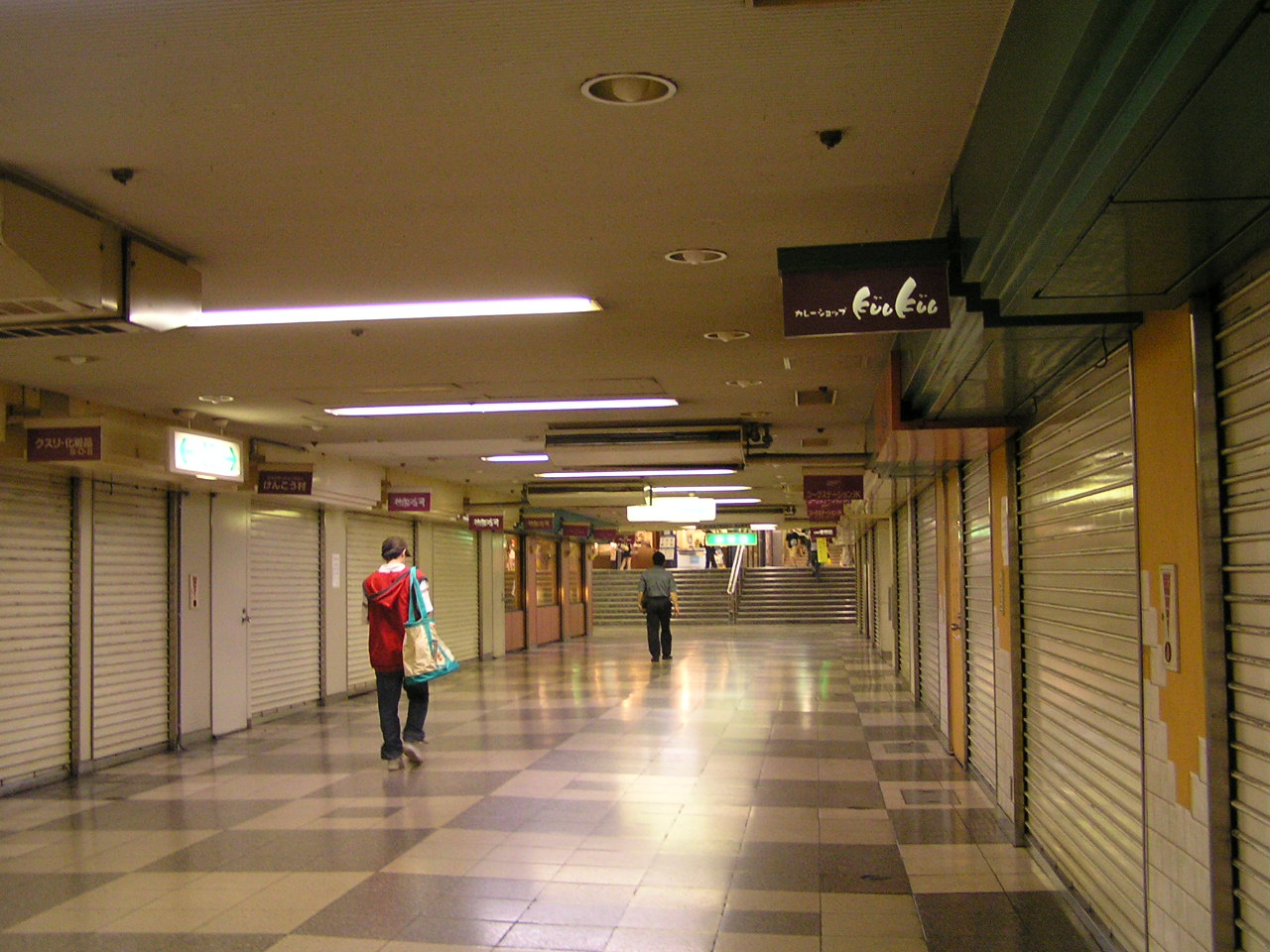 Okayama Sanbangai underground shopping center before it is closed